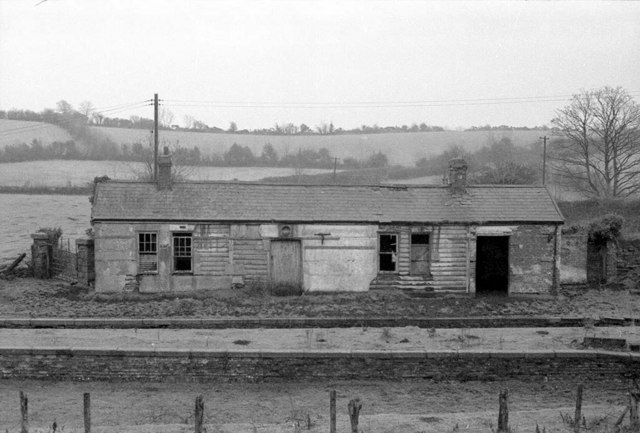 Ballynahinch Junction Ballynahinch Junction, opened 10-09-1858, closed 16-01-1950 The Junction Station on the mainline from Belfast to Newcastle. Passengers would have changed here to travel to the town of Ballynahinch, approx six miles away.